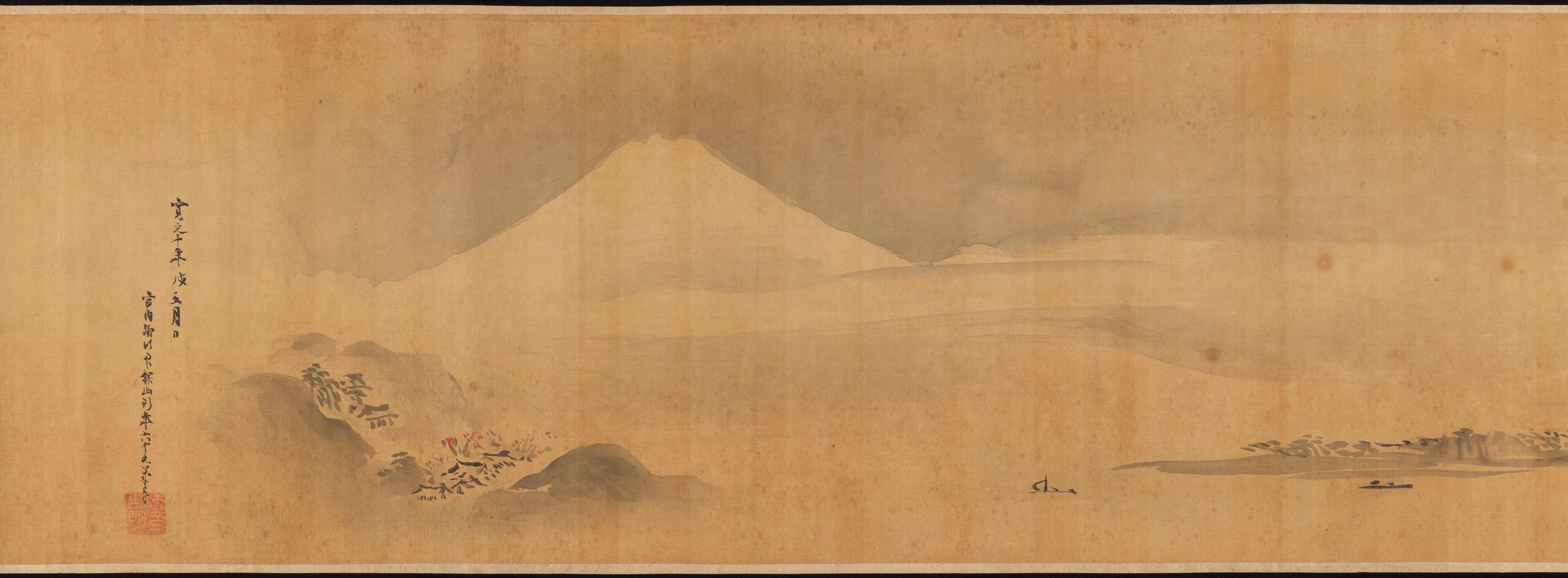 Japan; Handscroll; Paintings